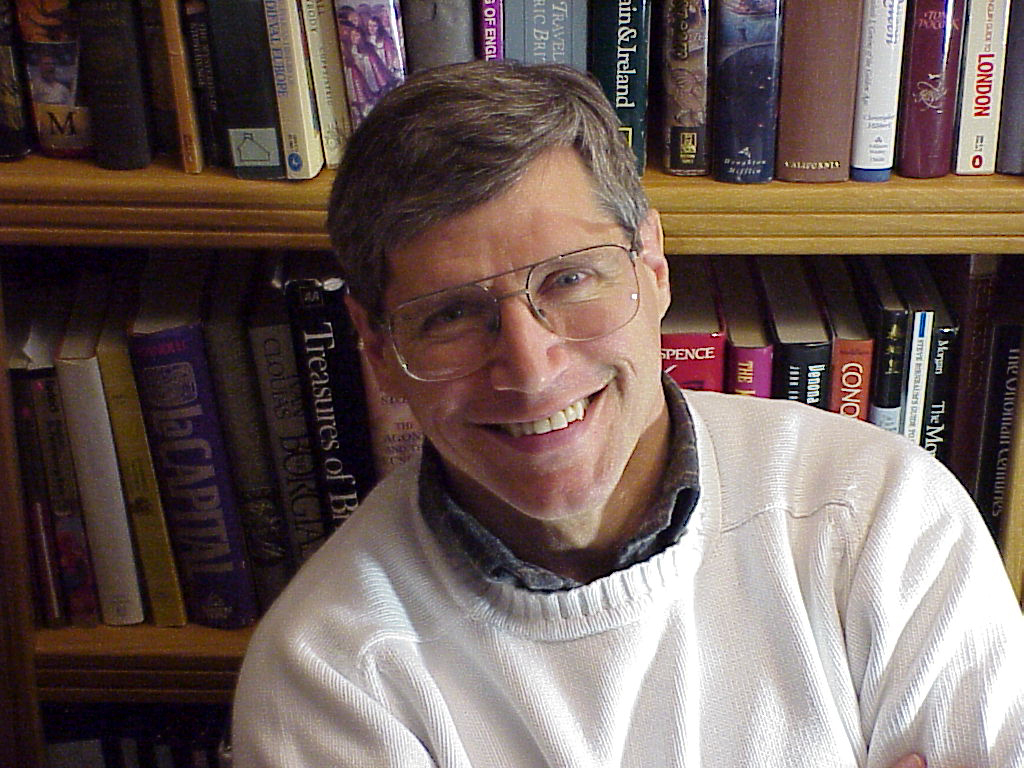 Image of computer game designer Bob Bates